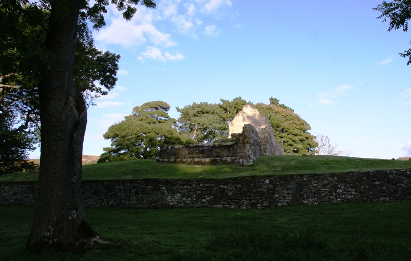 St Blane's Church, Bute, Scotland. View from the west.